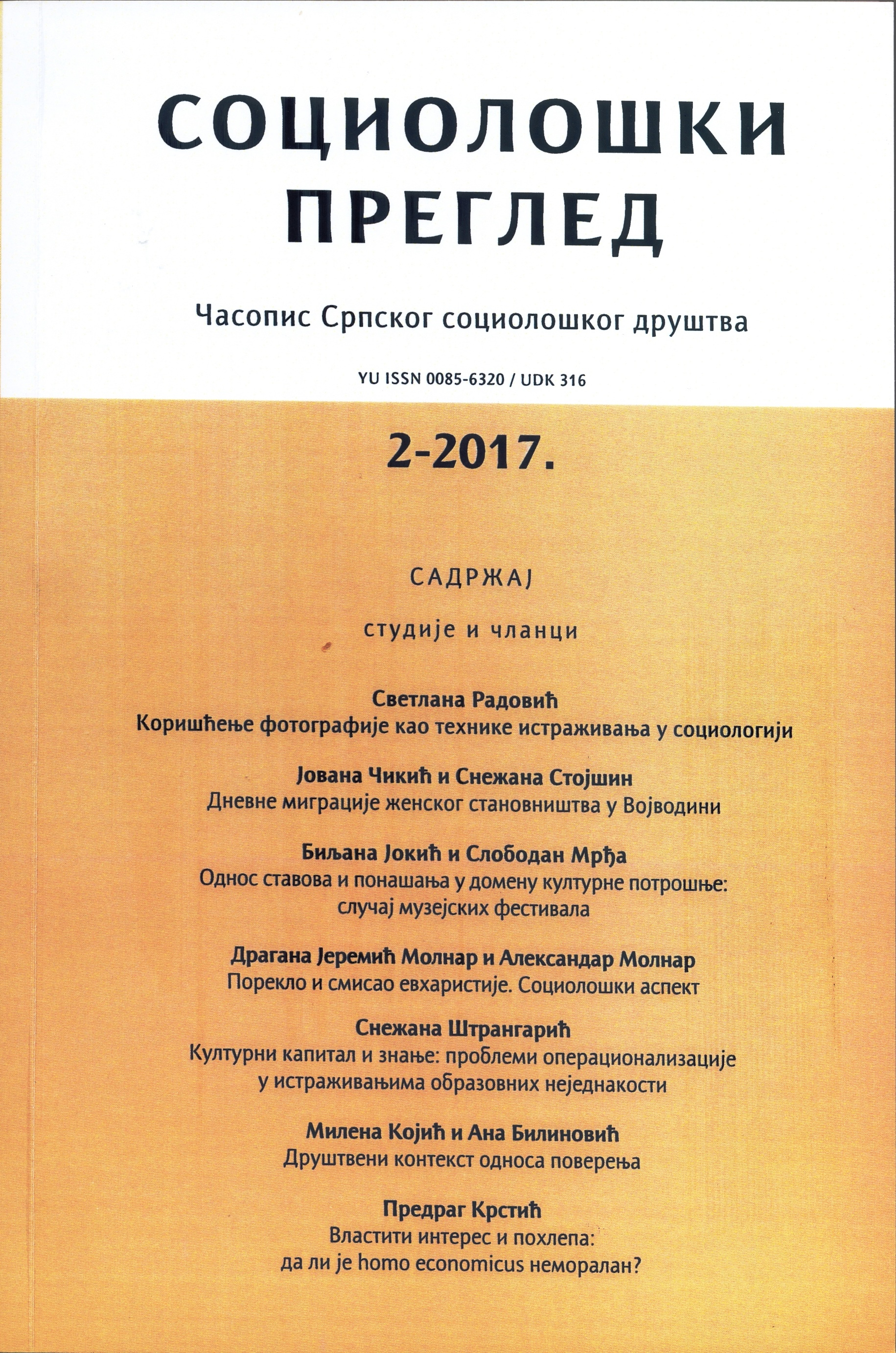 Cover of journal Socioloski pregled in serbian, Serbia